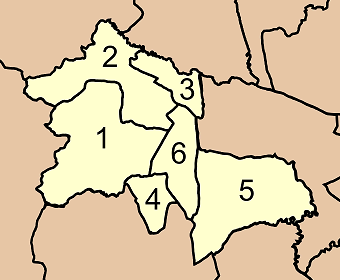 Map of Chian Yai district, Nakhon Si Thammarat province, Thailand, with the communes (tambon) numbered. Ron Phibun (ร่อนพิบูลย์) Hin Tok (หินตก) Sao Thong (เสาธง) Khuan Koei (ควนเกย) Khuan Phang (ควนพัง) Khuan Chum (ควนชุม)